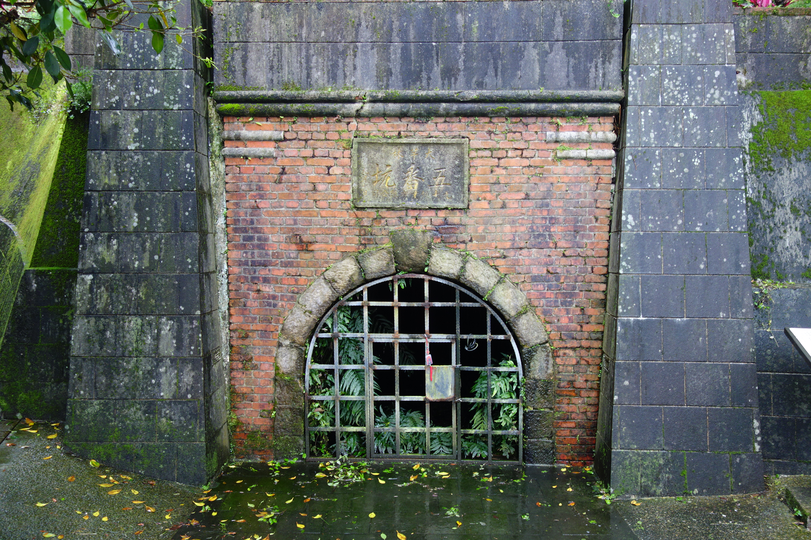 Gold mine wellhead in Jiufen, Taiwan